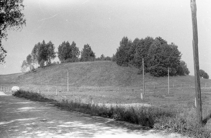 Rūdaičiai hillfort, Kretinga district, Lithuania